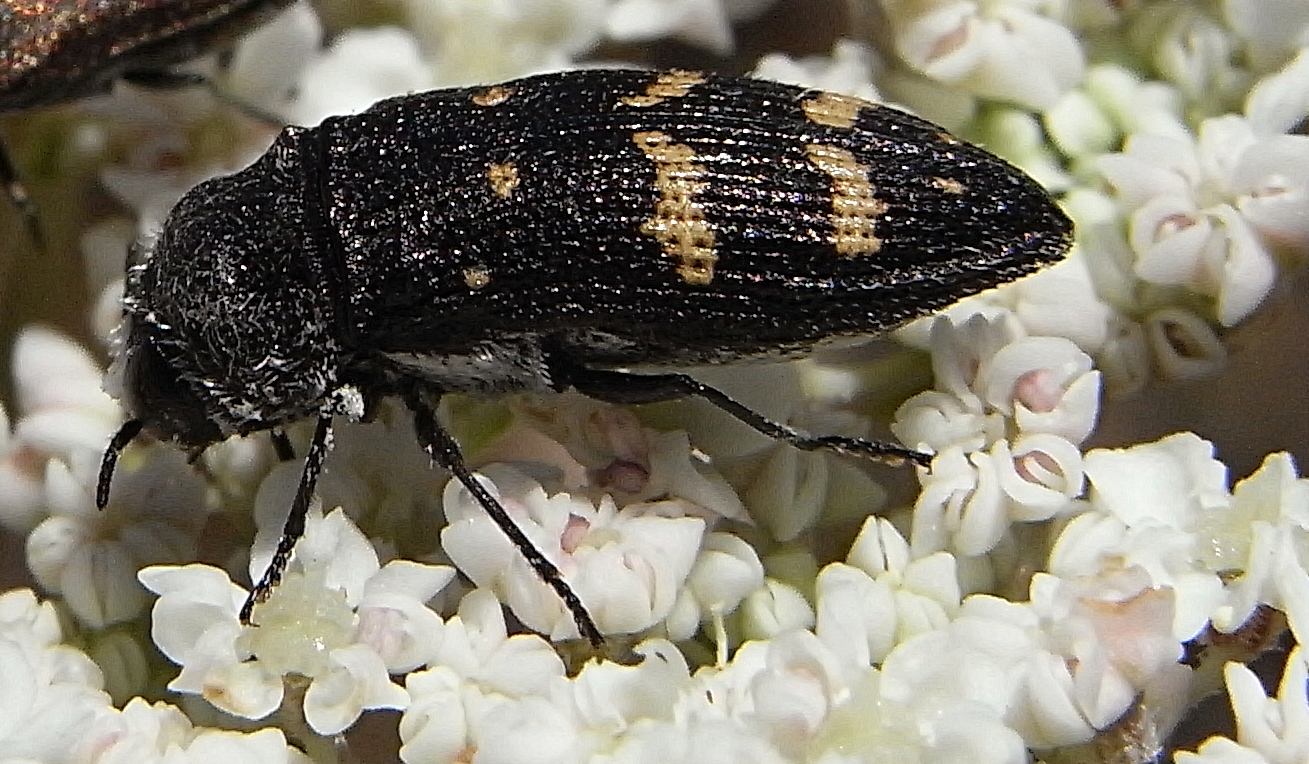 Acmaeoderella flavofasciataRicoh R8